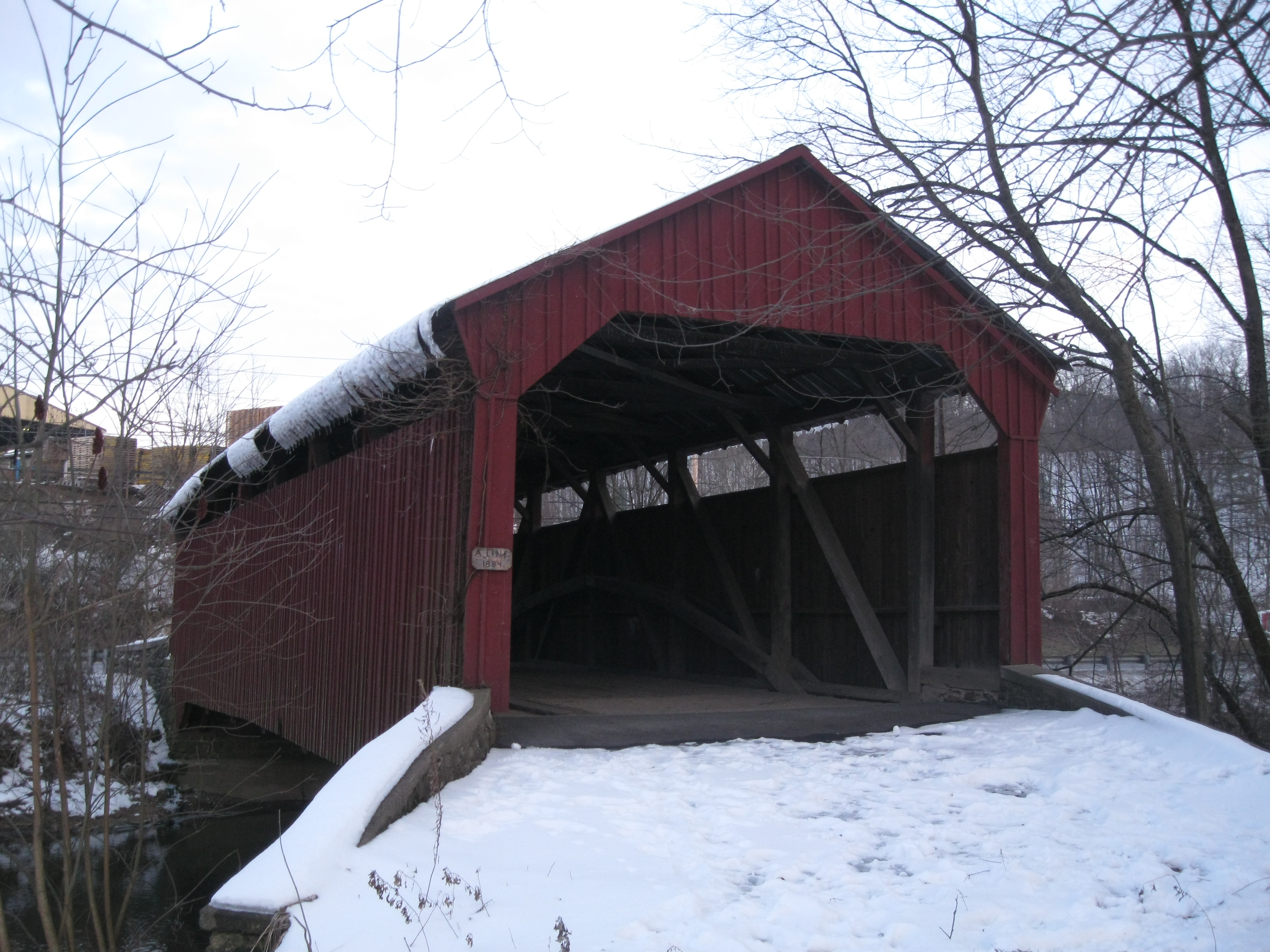 West portal and north side Aline Covered Bridge, a Burr arch covered bridge near the village of Meiserville connecting in Perry Township, Snyder County, Pennsylvania, USA. It was constructed in 1884 and crosses the North Branch of Mahantango Creek; listed on the National Register of Historic Places in 1979.